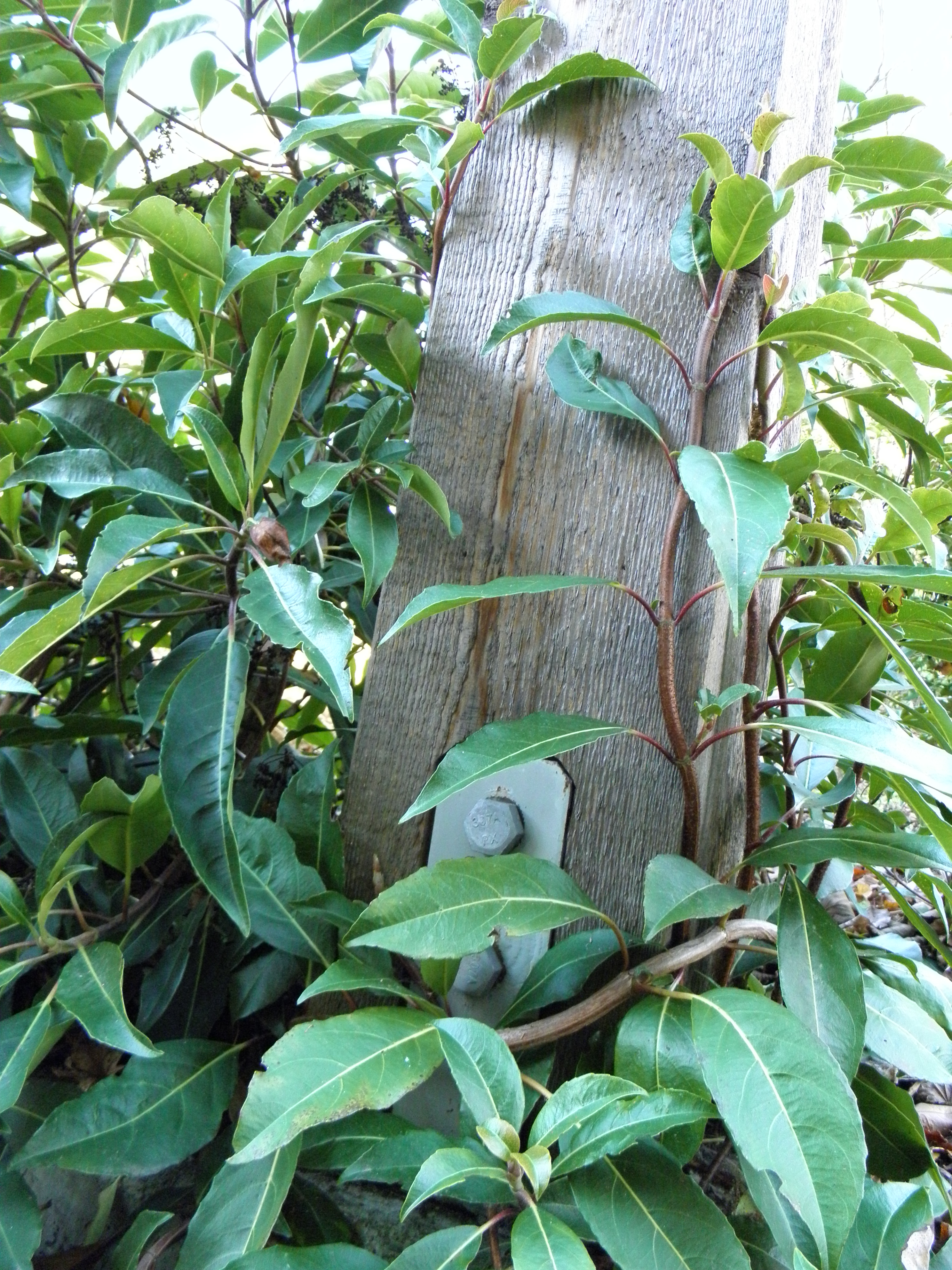 The Hydrangea integrifolia requires no human assistance to climb nearby objects. Leaves are opposite, often with red petioles.